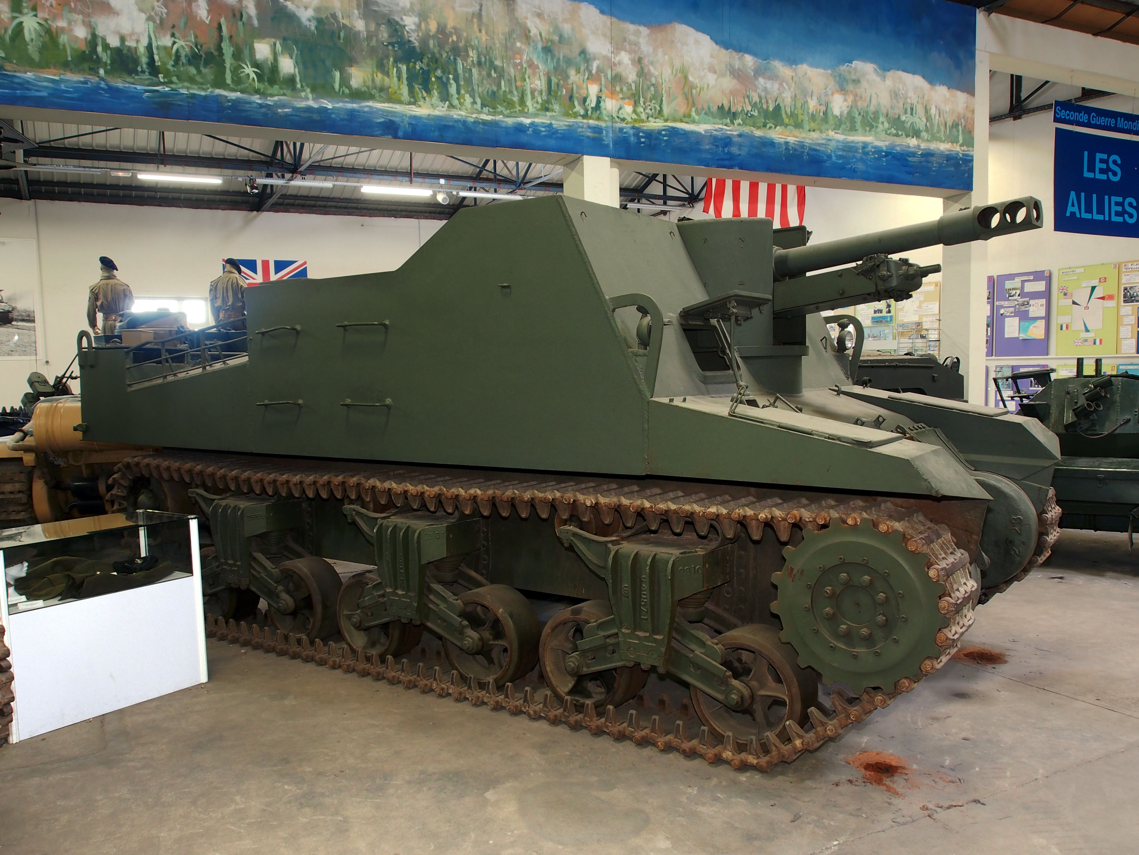 Photographed in the Musée des Blindés, France.